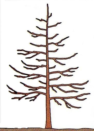 Please somebody write the name in english!